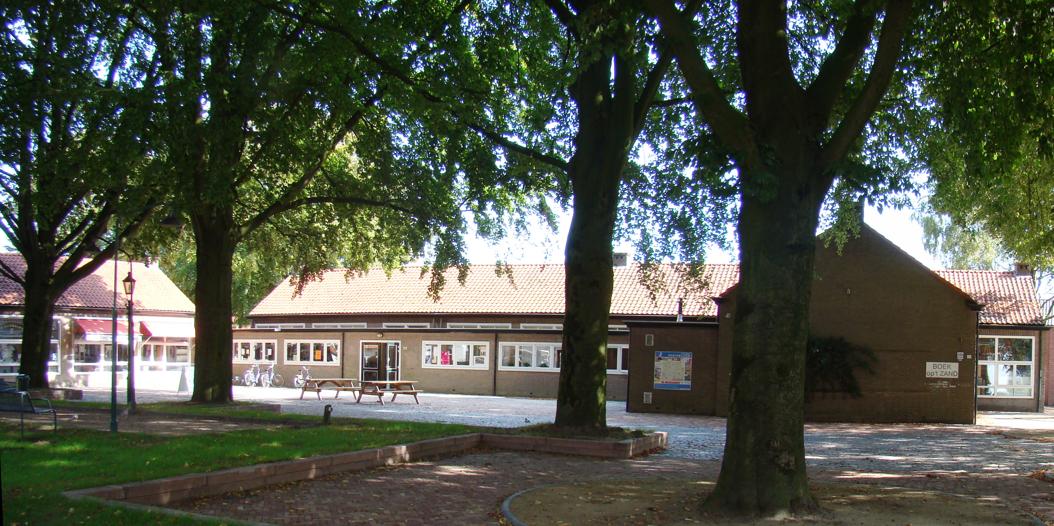 't Zand at Bredevoort